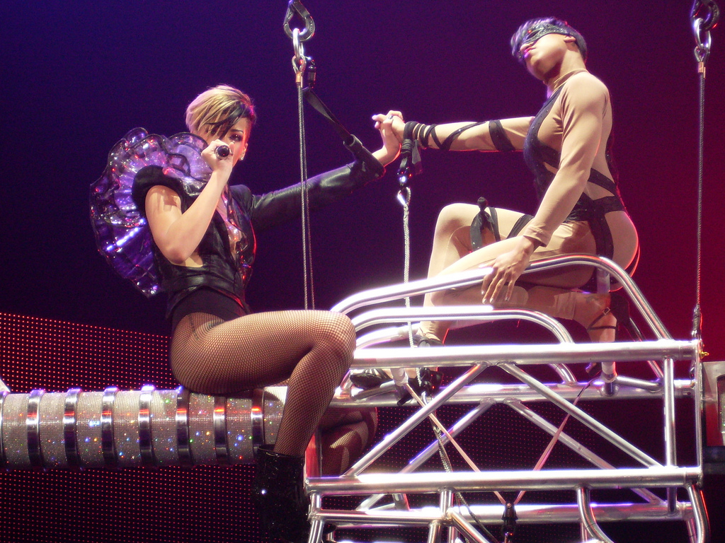 Rihanna in her Last Girl on Earth Tour